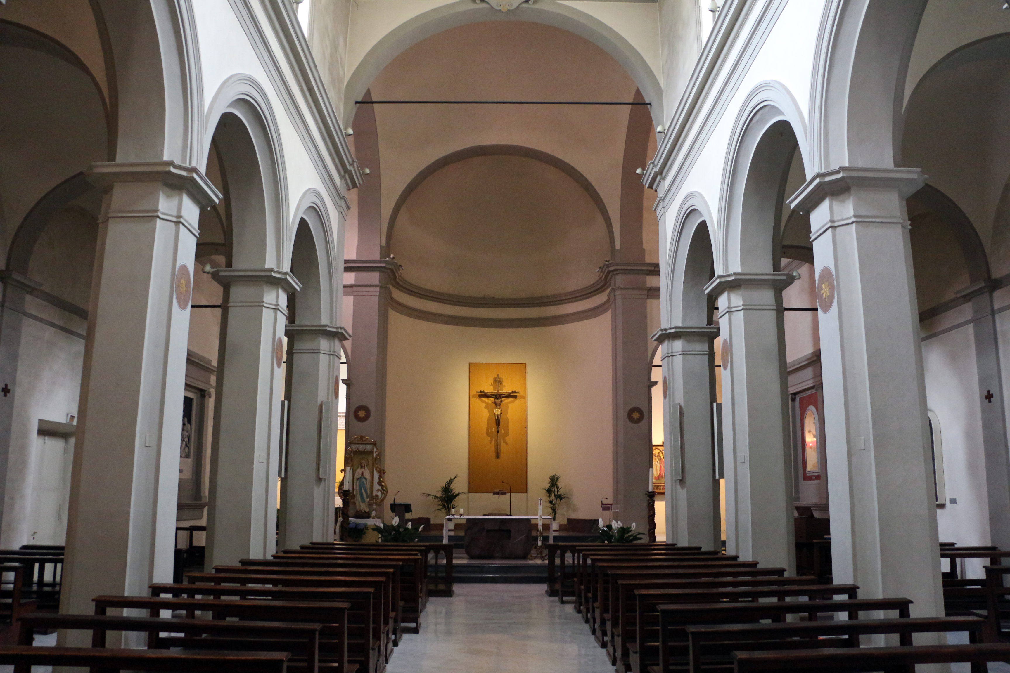 Propositura di Santa Croce (Greve in Chianti)